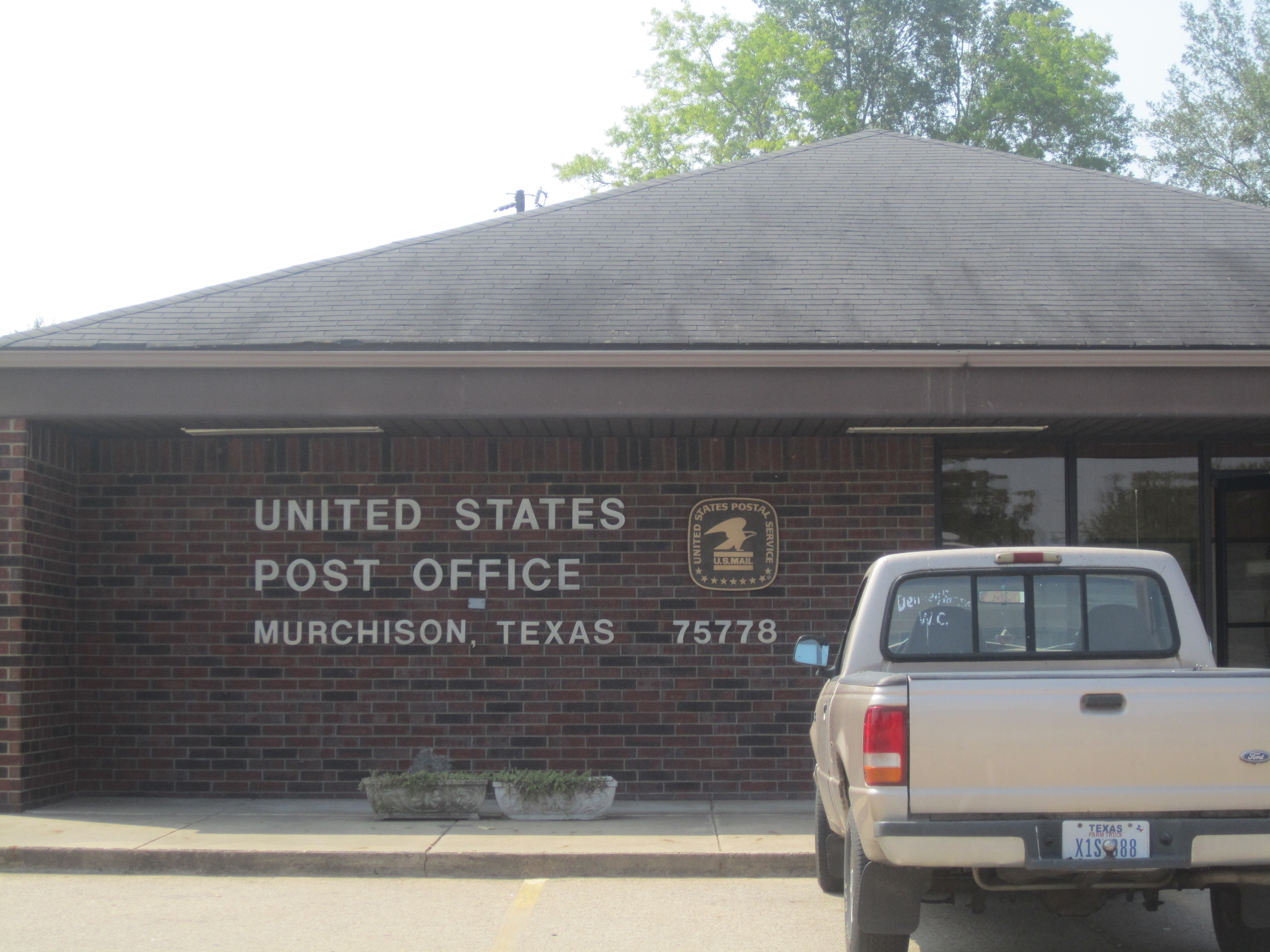 I took photo with Canon camera in Murchison, TX.